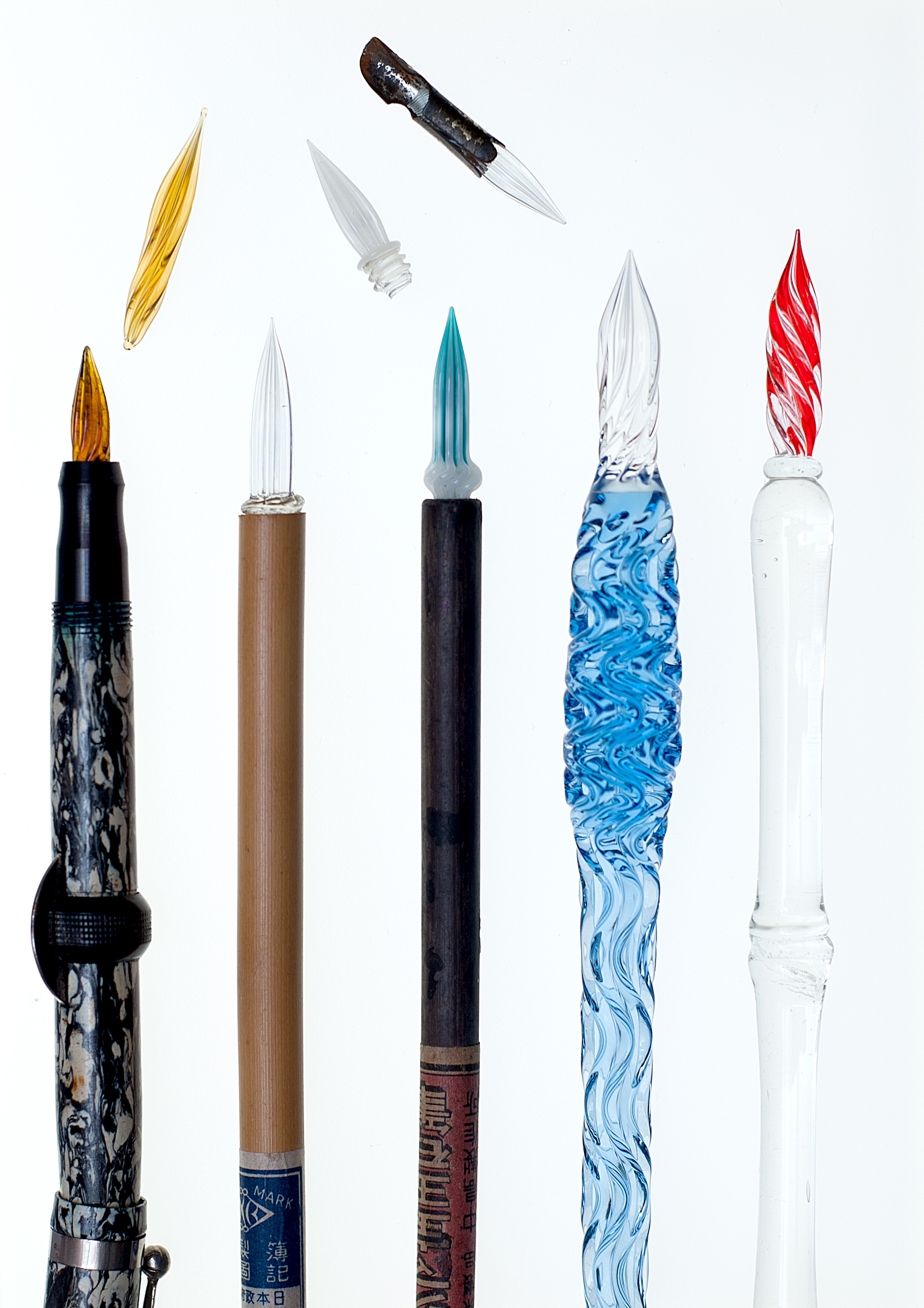 Most kinds of Glass pens